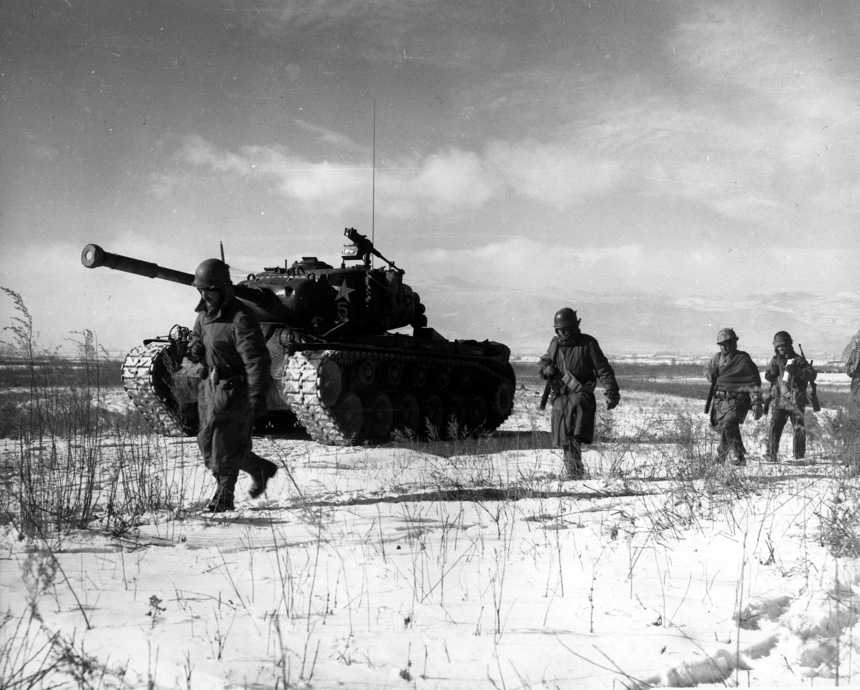 A column of troops and armor of the 1st Marine Division move through communist Chinese lines during their successful breakout from the Chosin Reservoir in North Korea. The Marines were besieged when the Chinese entered the Korean War November 27, 1950, by sending 200,000 shock troops against Allied forces.